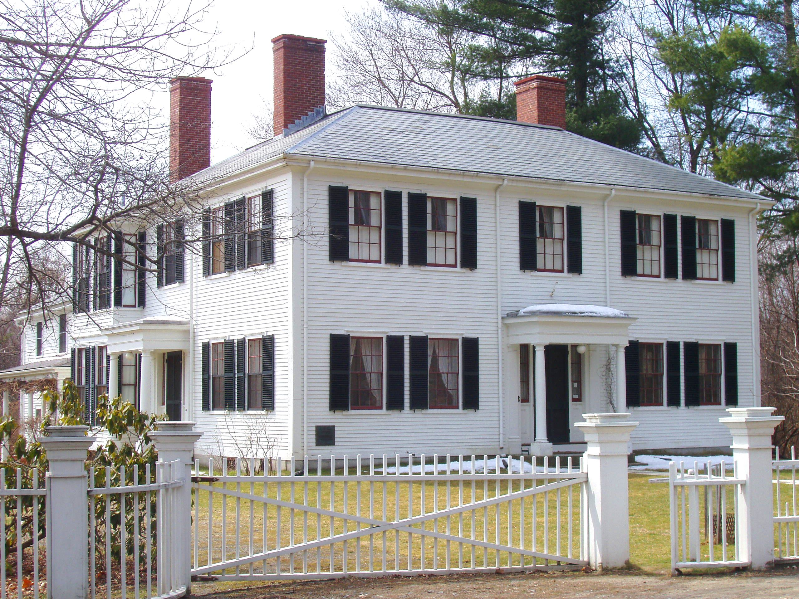 Photograph of Ralph Waldo Emerson House, Concord, Massachusetts, USA. This National Historic Landmark was the longtime home of philosopher Ralph Waldo Emerson.